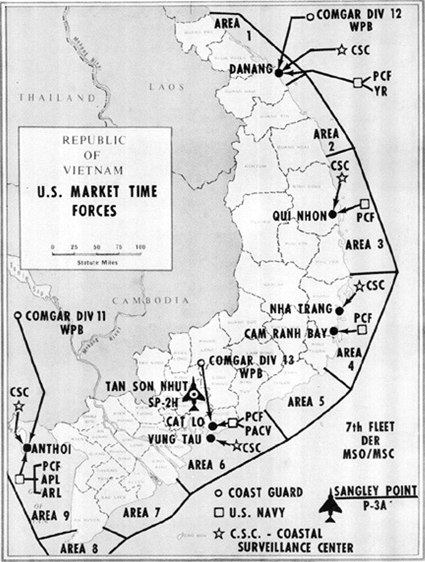 Map of U.S. Naval Forces in Operation Market Time - United States Naval Operations Vietnam, Highlights; June 1966